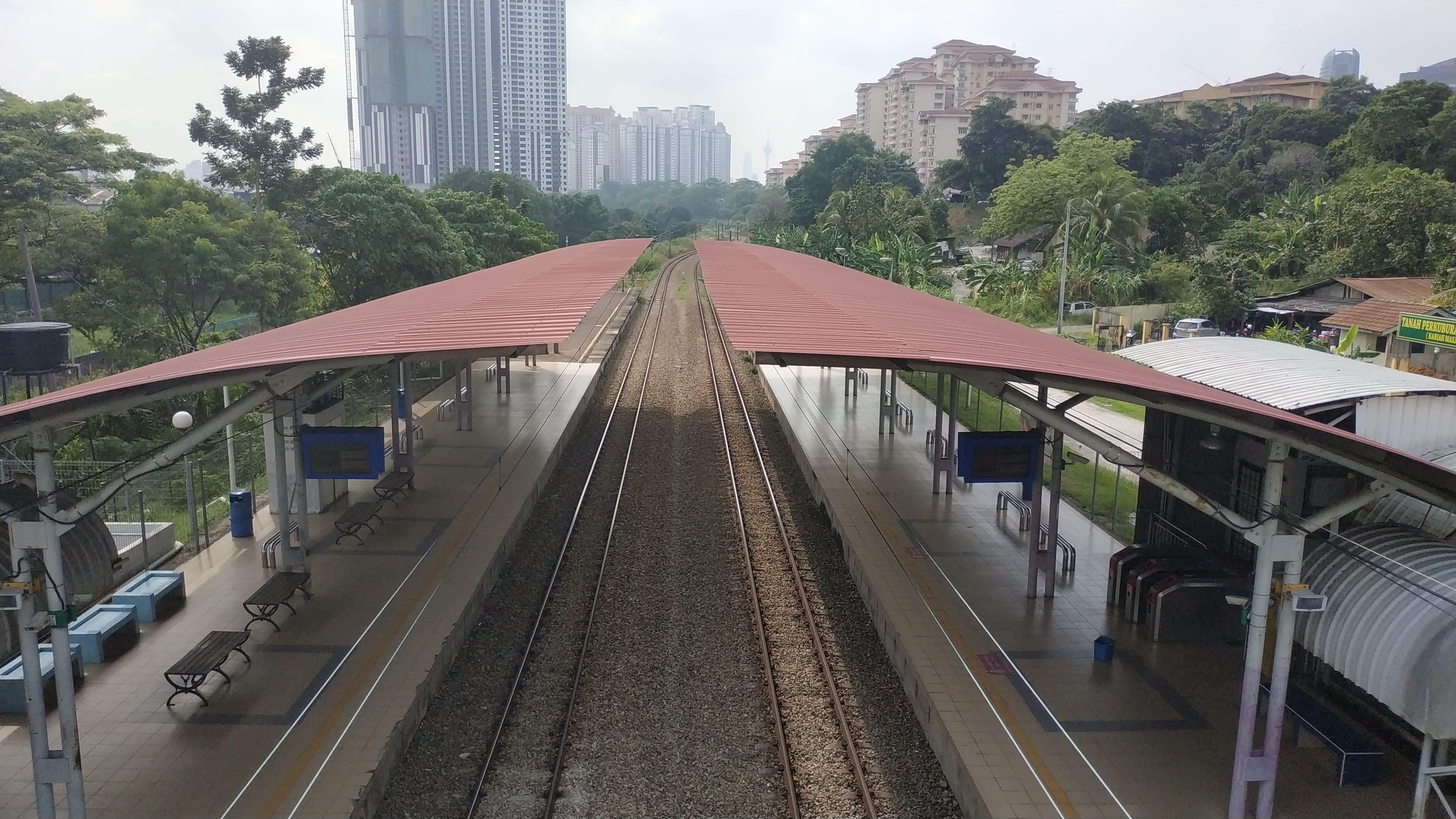 Segambut Komuter station in March 2020